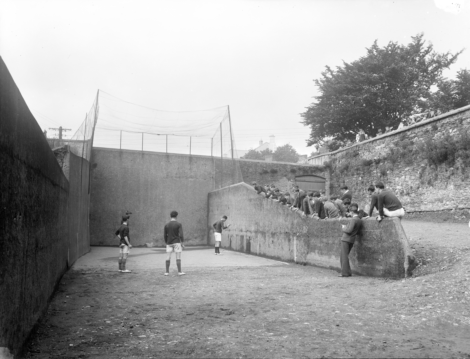 All we had on this photo was "Rev. Father Conlon, Handball Court" until we got this great information from Brendan Grogan: "Checked out the photograph in question, dated 30th May 1931. It's from the old Good Counsel College off Chapel Lane in New Ross, 1890-1980. It was commissioned by Fr. Thomas A. Conlan, OSA, Rector of the college from 1930 to 1942. The group of photographs, most of which mention Fr. Conlan, in the NLI Poole collection date from the above period and comprise 15 photographs of various groups of students, clerics and sports activities. The ball alley is still in existence today, albeit somewhat modified and currently unused and dilapidated. Thanks, Brendan. See here for photo Nov. 2012 ." Date: Saturday, 30 May 1931 NLI Ref.: P_WP_3810